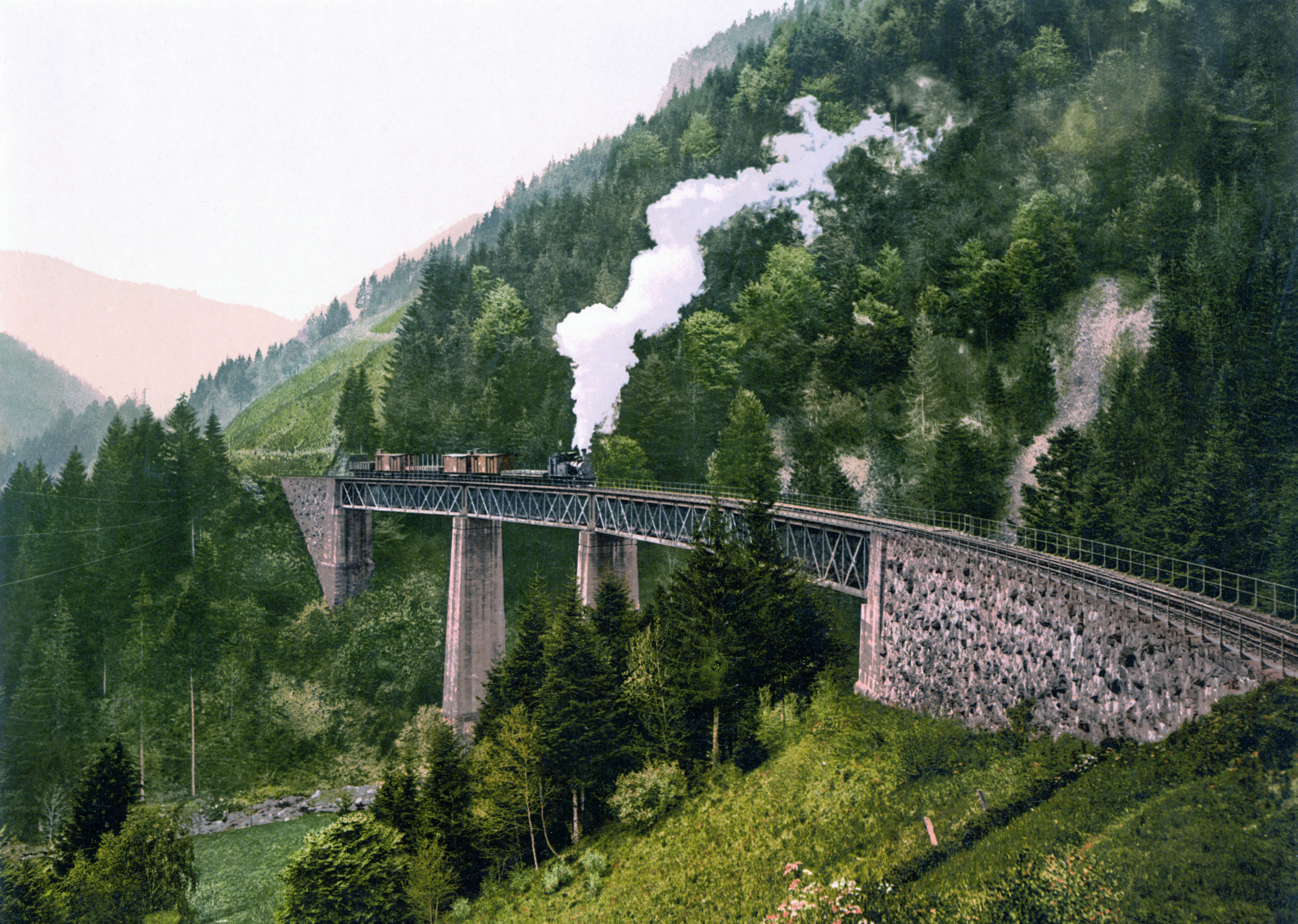 Viaduct and gorge, Hollenthal, Black Forest, Baden, Germany.